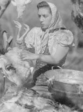 Susana Martres- actriz